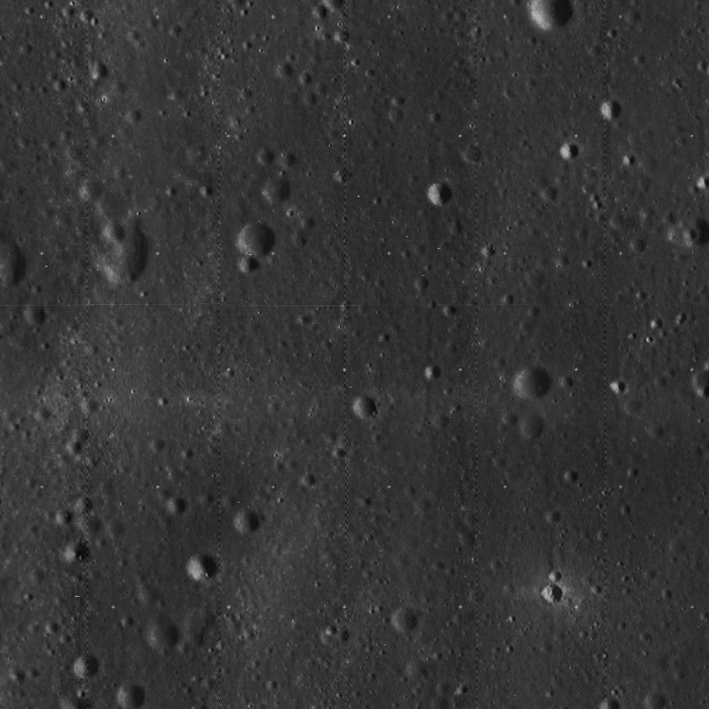 Lunar surface centered on the landing site of Surveyor 5 in Mare Tranquillitatis. North is at top and the view is about 17.2 km wide. The image was acquired by Lunar Orbiter 5 in 1967, the same year as the Surveyor 5 landing.